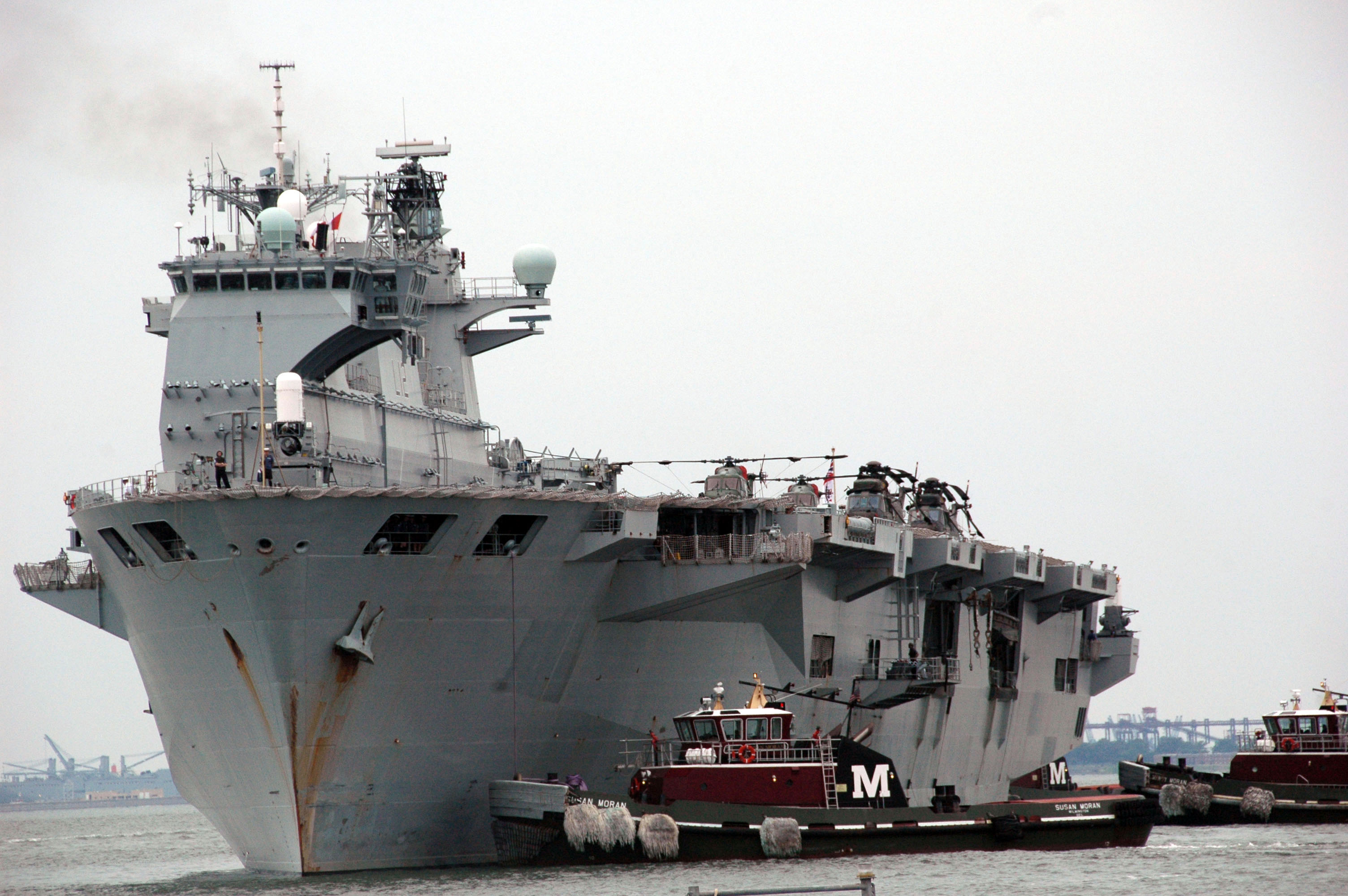 NORFOLK (June 30, 2010) The Royal Navy landing platform dock ship HMS Ocean (L12) arrives at Naval Station Norfolk during Operation AURIGA. AURIGA is the Royal Navy's major deployment of 2010 to the Eastern Seaboard of North America and the western Atlantic Ocean. The U.K. Amphibious Task Group, will participate in a joint exercise with the Kearsarge Amphibious Ready Group and II Marine Expeditionary Force (II MEF) off the coast of North Carolina. Operation AURIGA is focusing on a series of U.S. and Canadian exercises to enhance operational capability by training with coalition partners in traditional warfighting areas of carrier strike, amphibious assault and anti-submarine warfare operations. (U.S. Navy photo by Mass Communication Specialist 2nd Class Rafael Martie/Released)